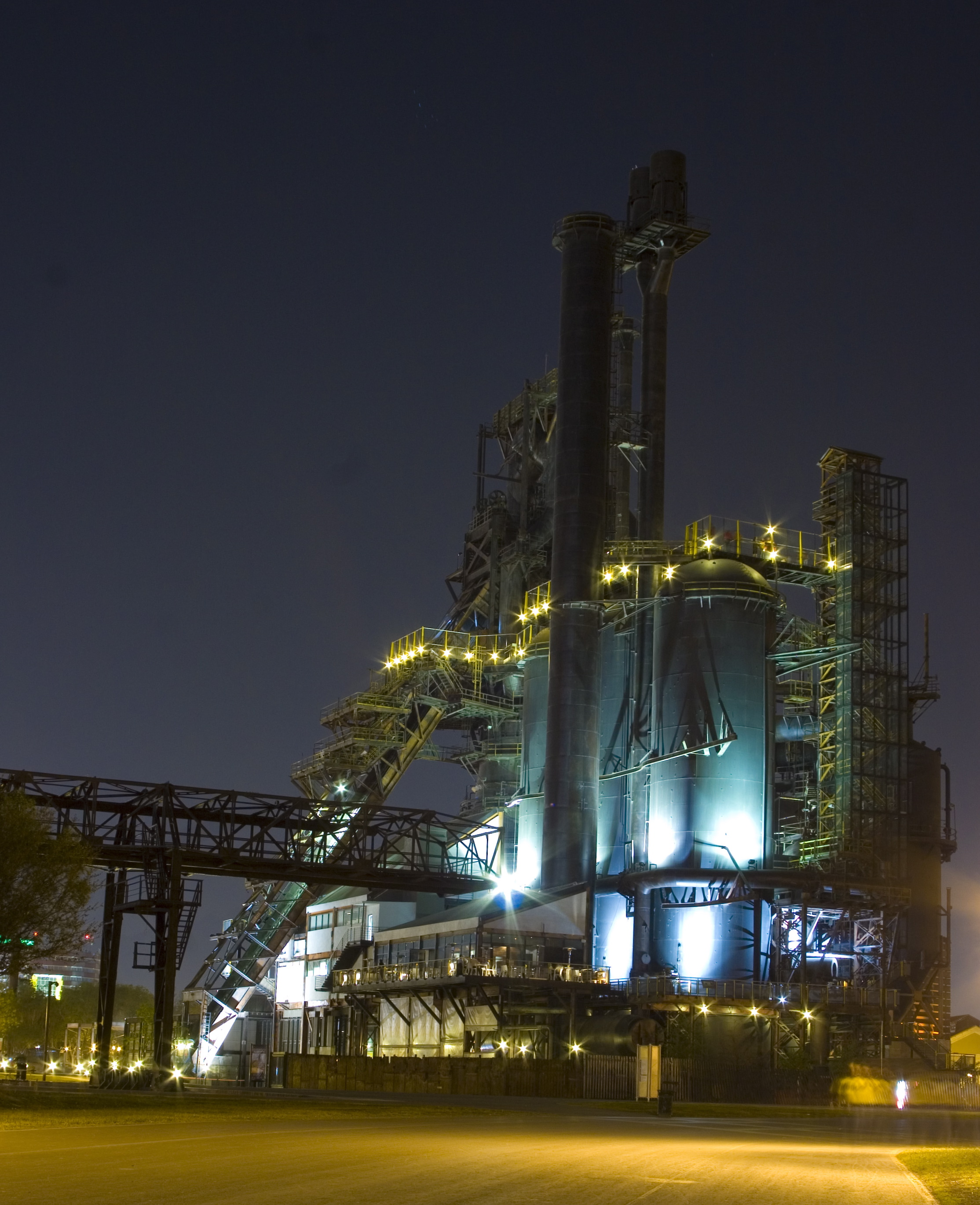 A former blast furnace of Fundidora de Acero de Monterrey steel mill, near Monterrey, México. Present day location of Parque Fundidora, a public park preserving the sculptural mill ruins, and the new Museo del Acero (steel museum).